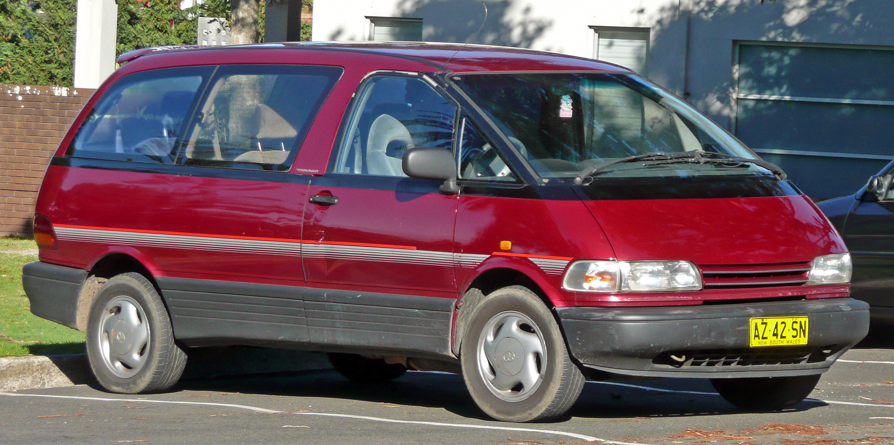 1991 Toyota Tarago (TCR11R) GLX van. Photographed in Cronulla, New South Wales, Australia.